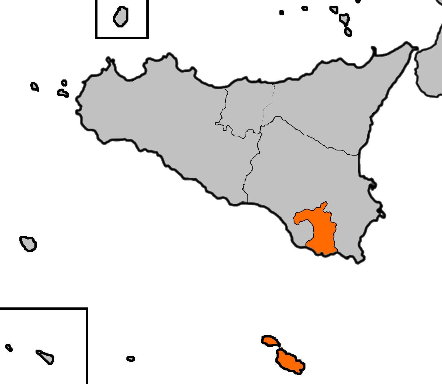 Localisation map of the Contea di Modica before the year 1530.